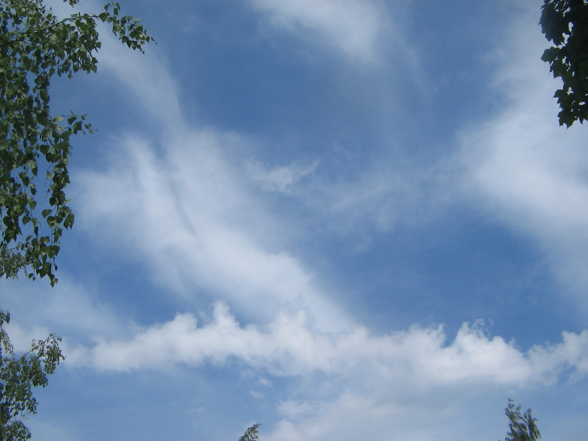 Weather/Cloud types/Stratocumulus castellanus cloud on summer day, this cloud is thread-like.